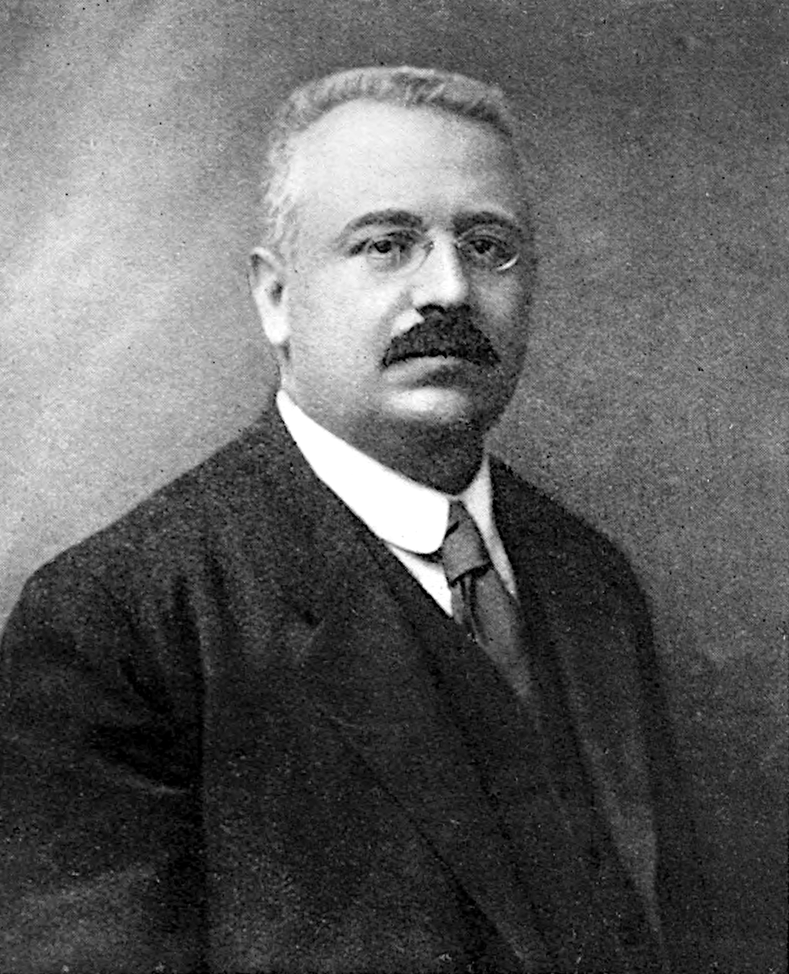 'Professor Francesco Nitti, Minister of Agriculture, Industry, and Commerce.'